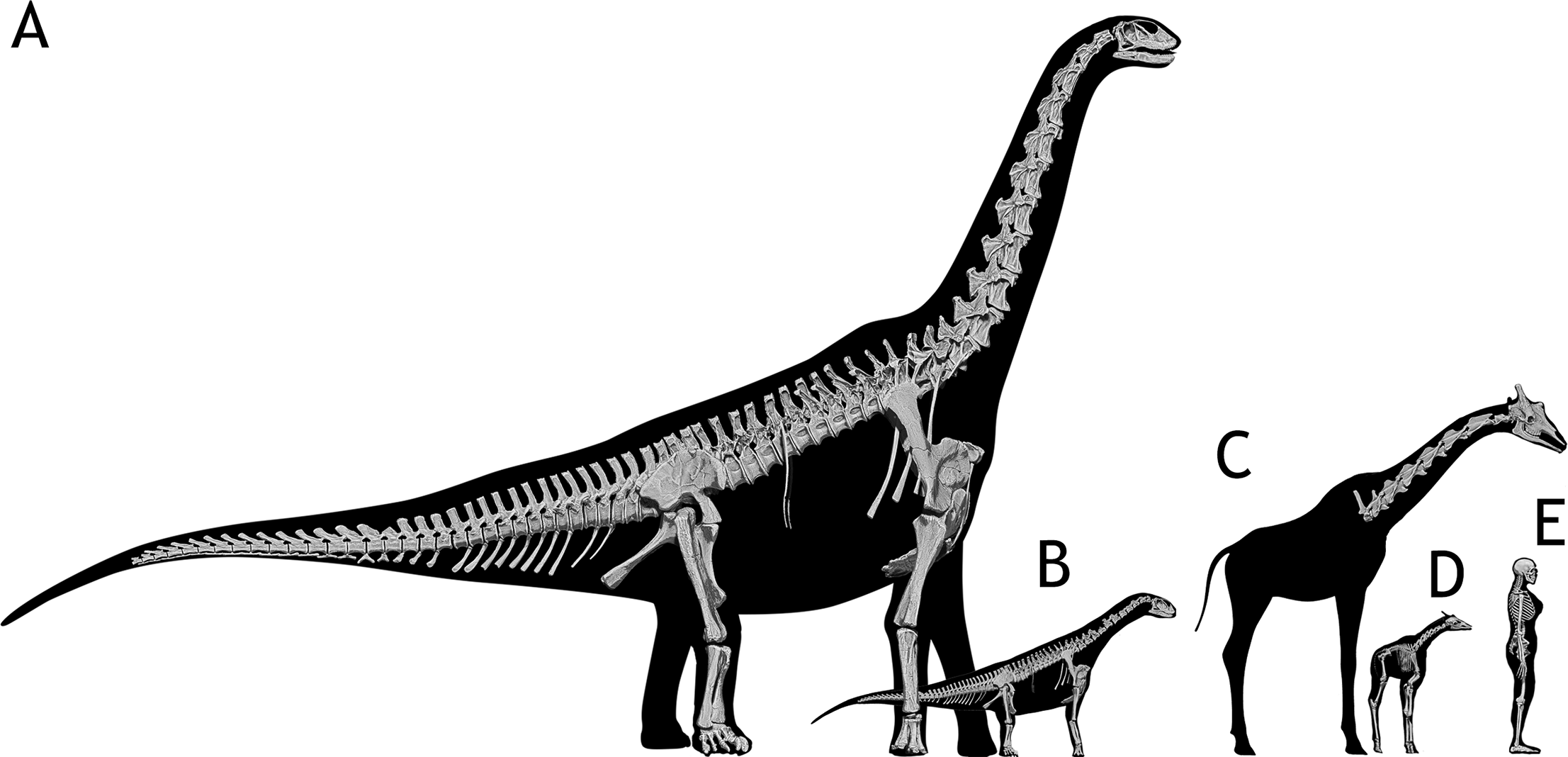 Size comparison of extant and extinct analyzed specimens. A—Spinophorosaurus nigerensis adult composite specimen. B—Spinophorosaurus nigerensis juvenile composite specimen. C—Giraffa camelopardalis adult specimen. D—Giraffa camelopardalis newborn specimen (TMM M-16050). E—1700 mm. Homo sapiens for scale.